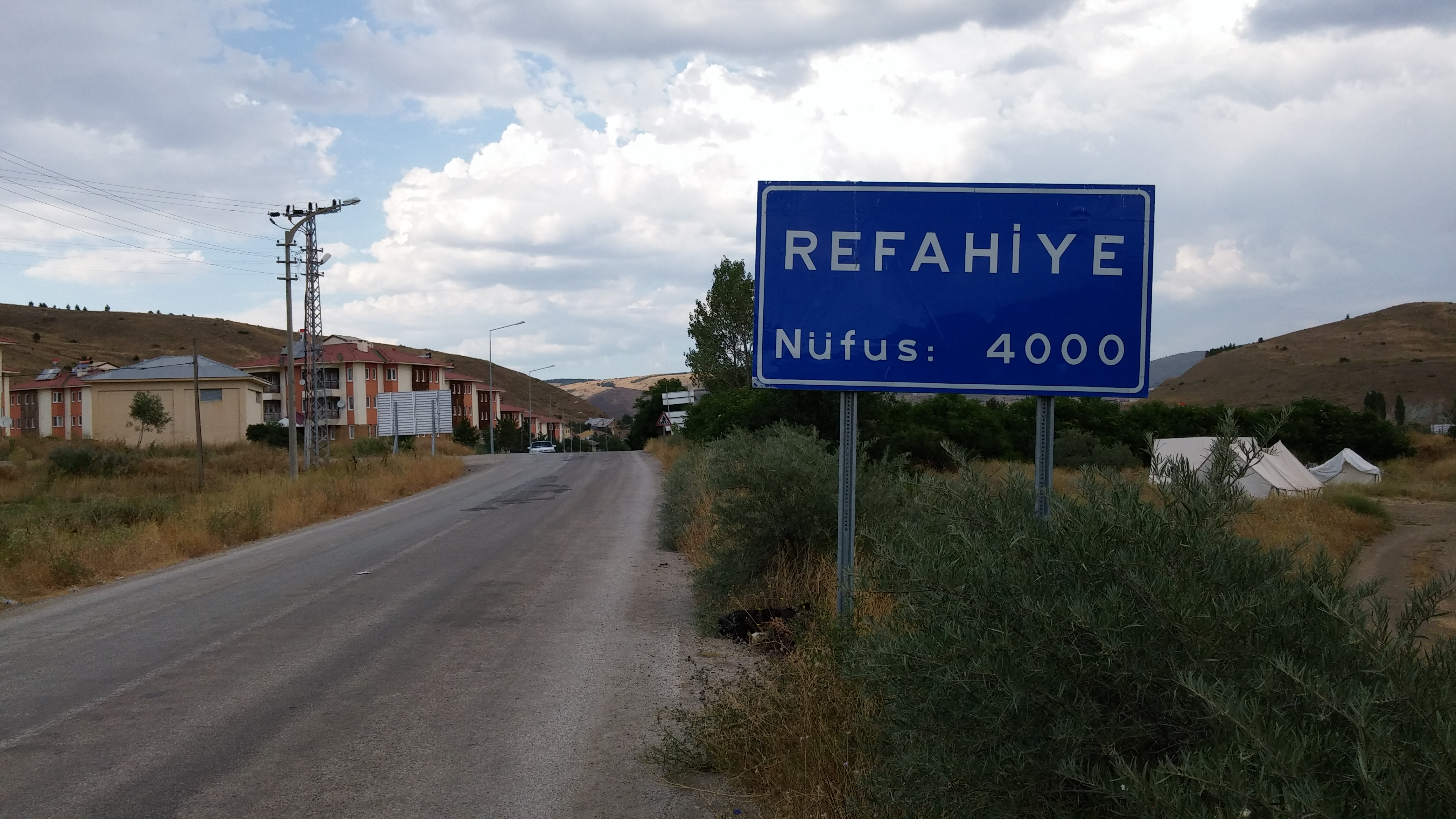 Tabela